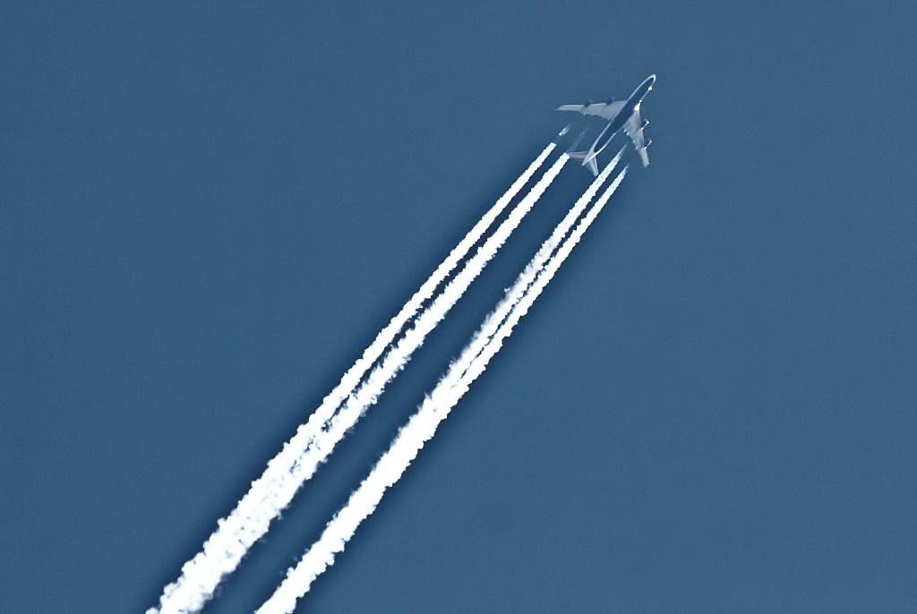 reg.: G-BNLY; flight: BA118 from Bangalore (BLR) to London - Heathrow (LHR)